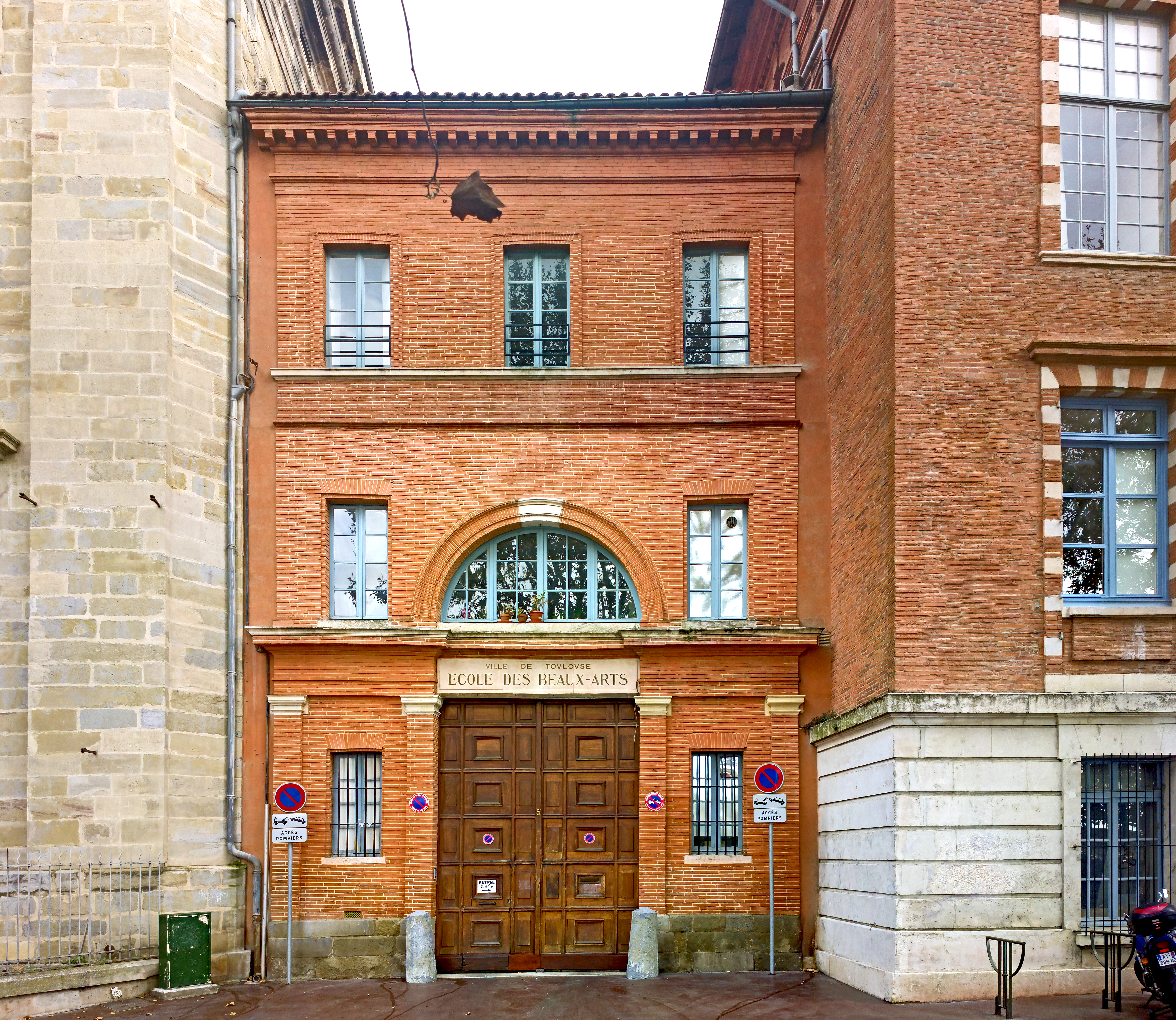 École supérieure des beaux-arts from Toulouse, entrance.